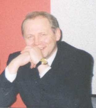 Juri Savenko - the deputy of the State Duma of Russia, the former mayor of Kaliningrad, former